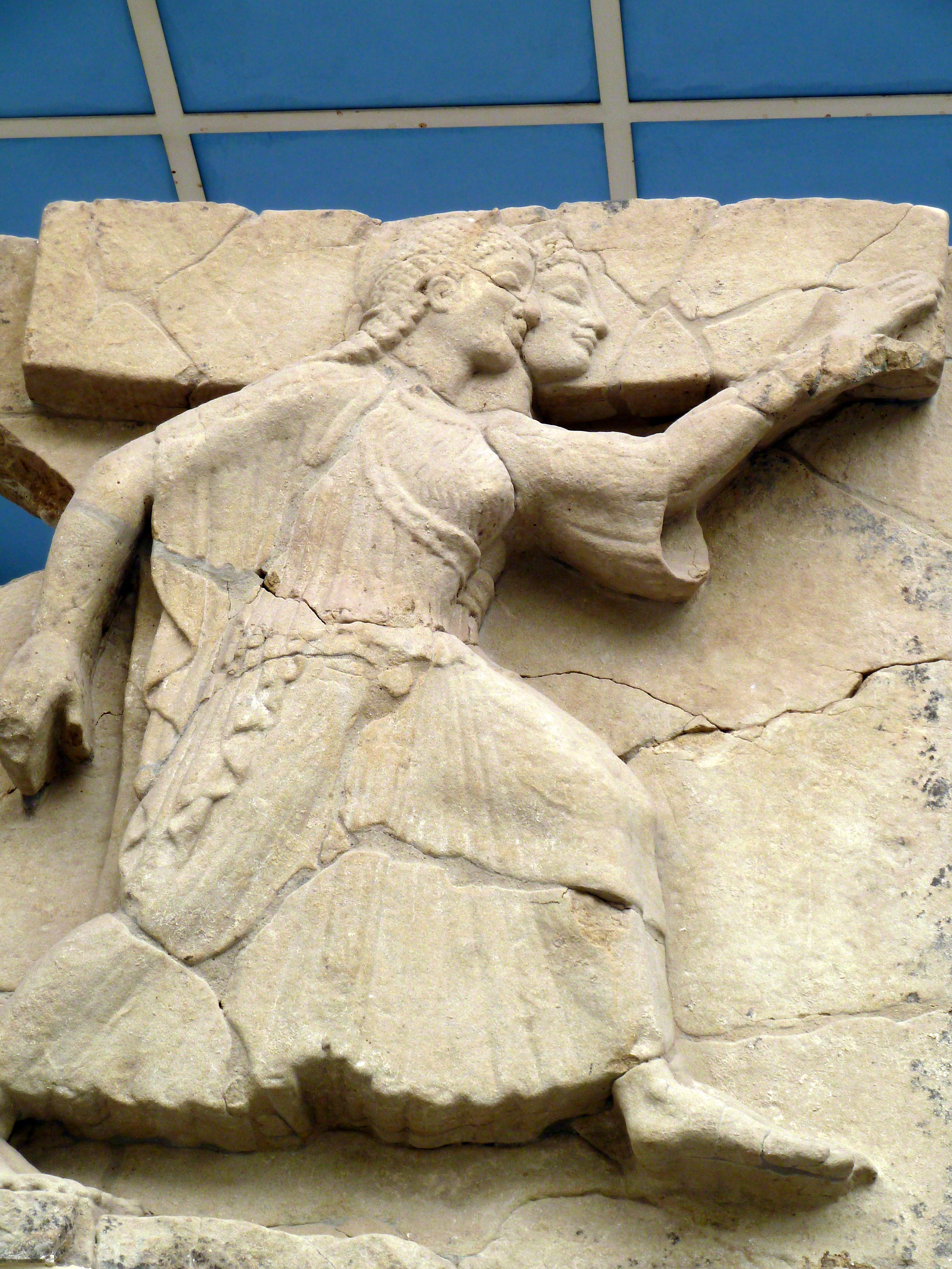 Temple of Hera. (510 BC) Heraion Sele. Sandstone friezes. Paestum.